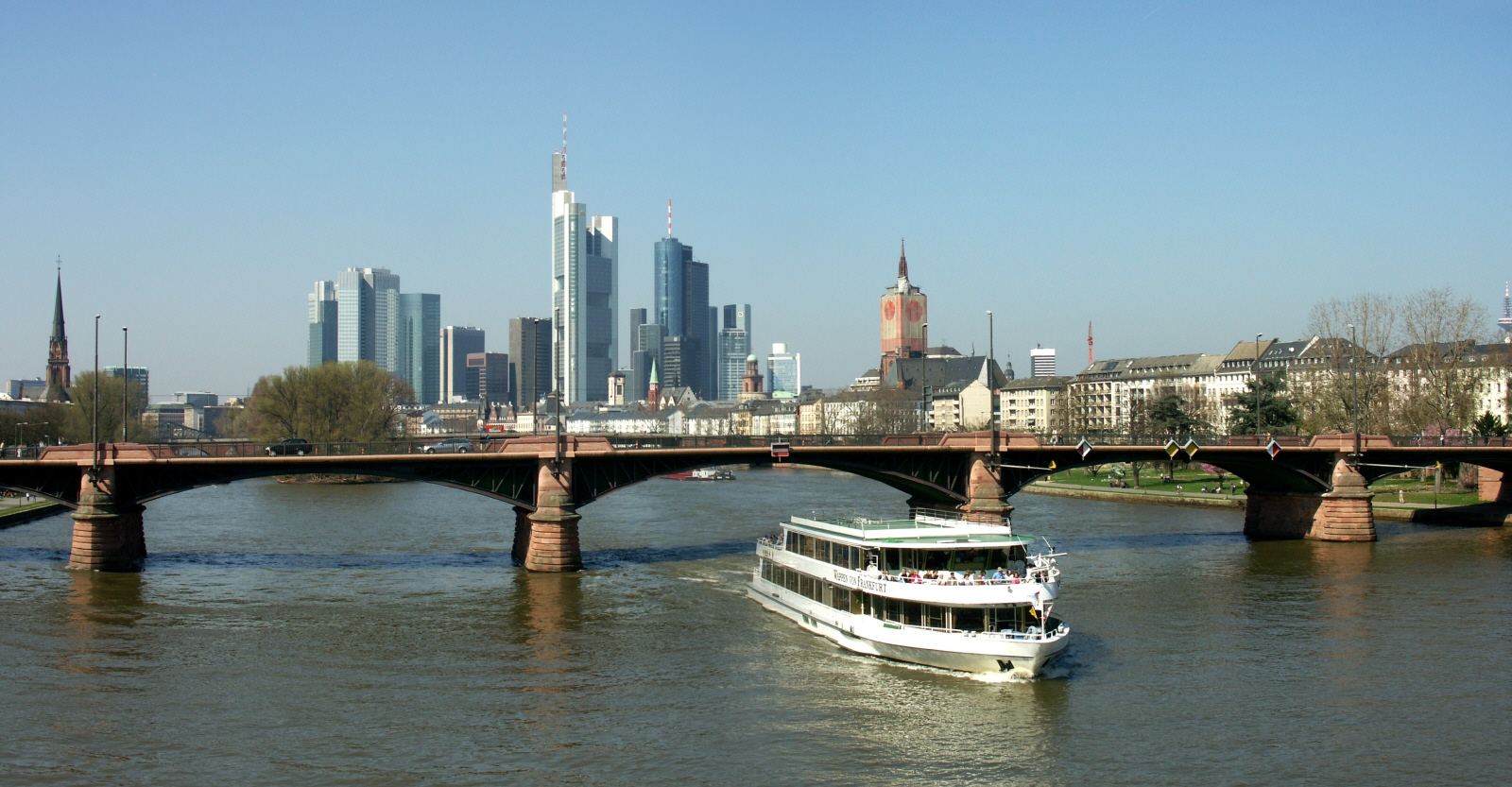 Frankfurt am Main, Obermainbrücke. The ship in front is the "Wappen von Frankfurt".